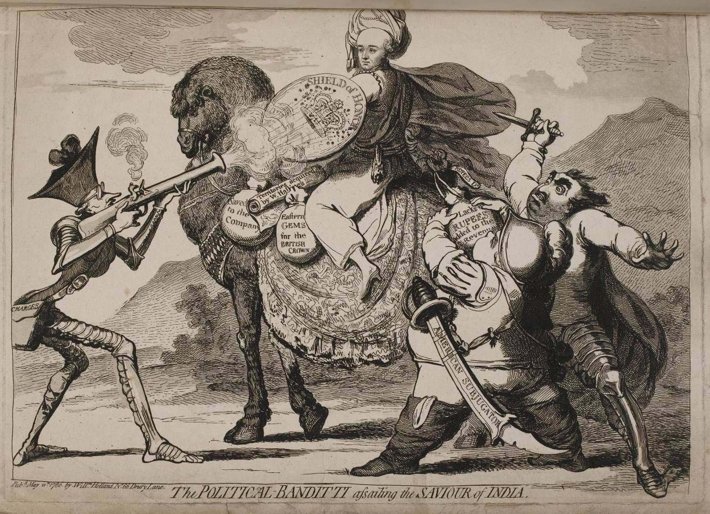 "The Political Banditti assailing the Saviour of India" (1786) - political cartoon by James Gillray on the Hastings impeachment trial. Warren Hastings is depicted as a "saviour of India" under attack by "banditti" that look like Edmund Burke and Charles James Fox, his prosecutors in the trial.